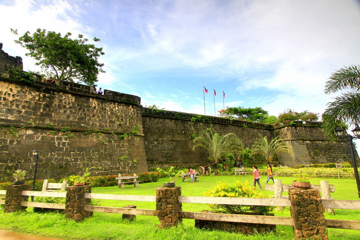 Fort Sta. Isabel (July 2014)